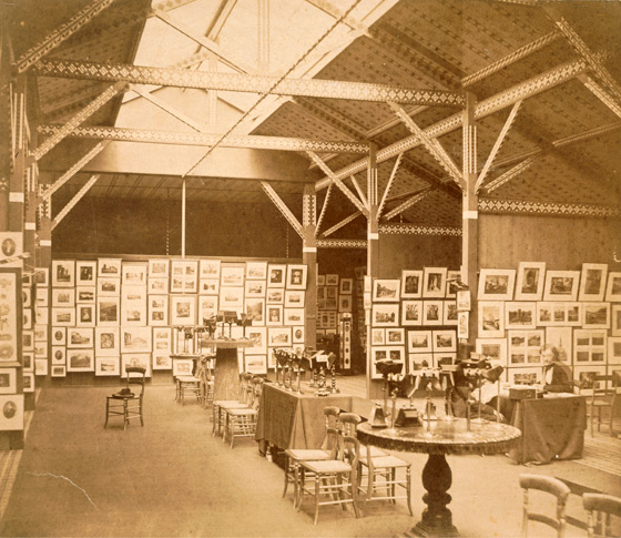 Exhibition of the Photographic Society of London and the Société française de photographie at the South Kensington Museum, 1858. Albumen print. It is the earliest known photograph of a photographic exhibition.